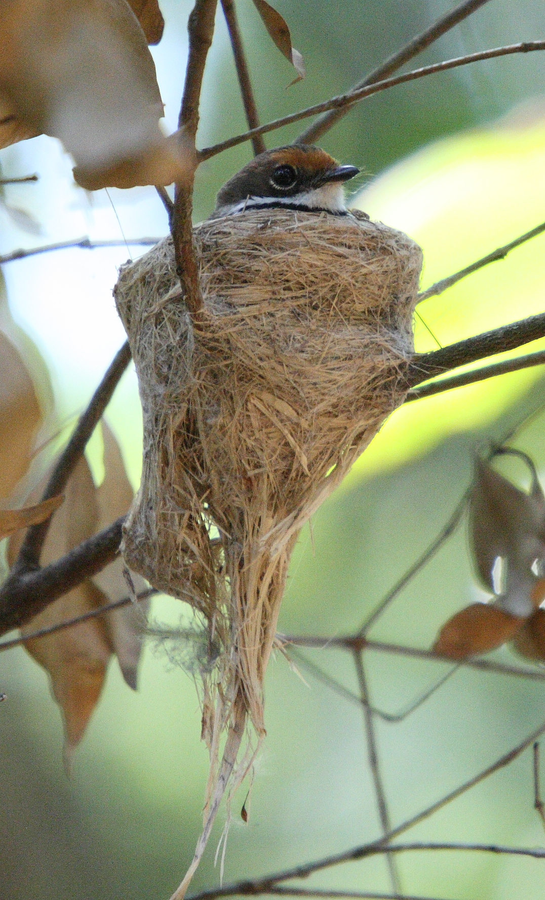 Rufous Fantail on wineglass-shaped nest, Iluka, NSW